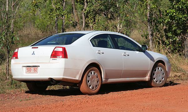 2005–2006 Mitsubishi 380 (DB) sedan, photographed near Darwin, Northern Territory, Australia.